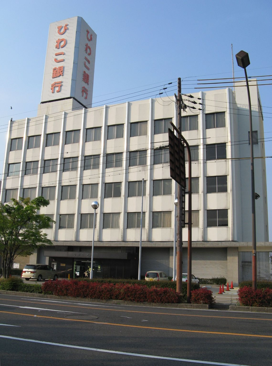 The Biwako Bank Ltd. Head Shop